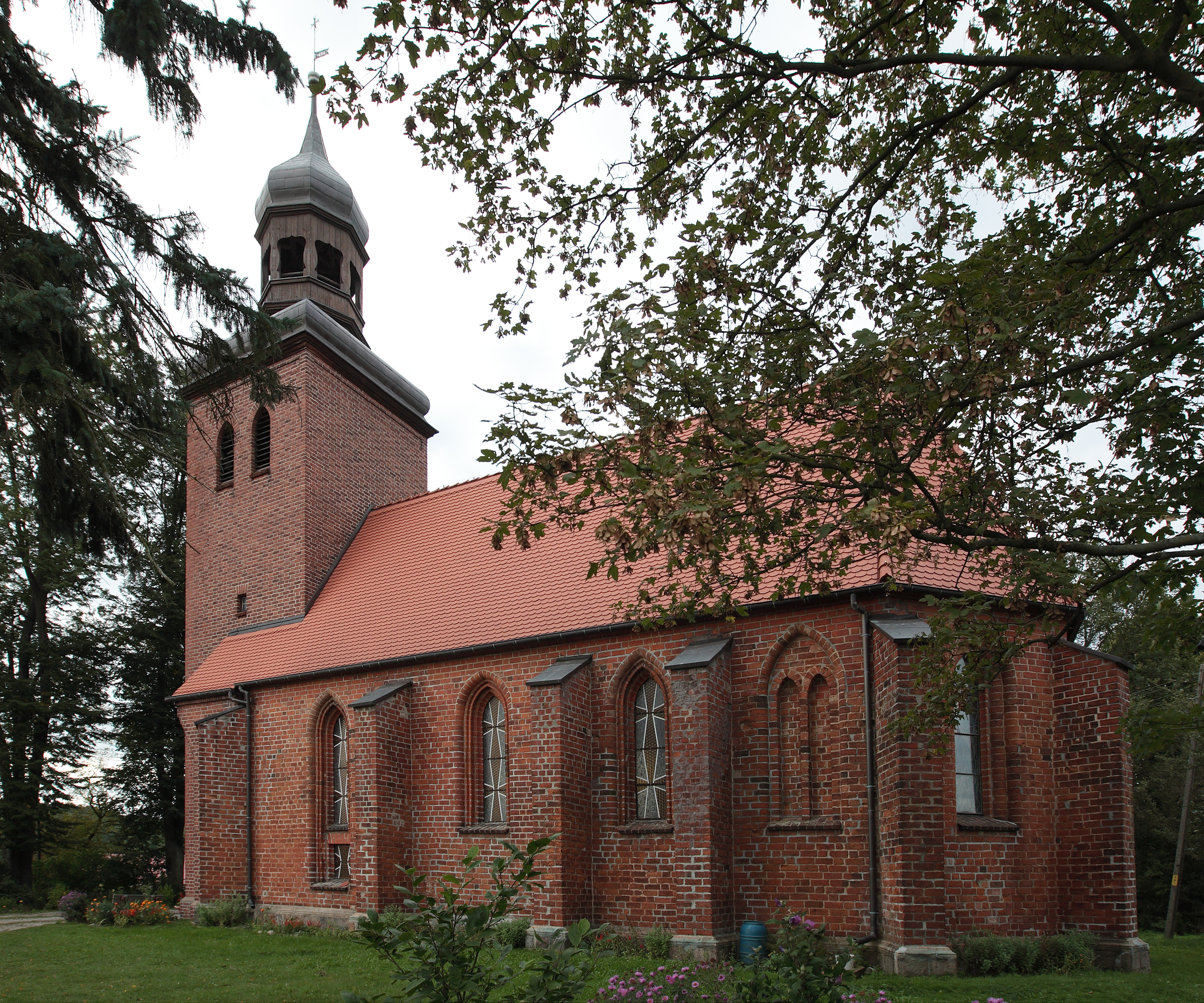 Ostrów - the church, XIV, 1911